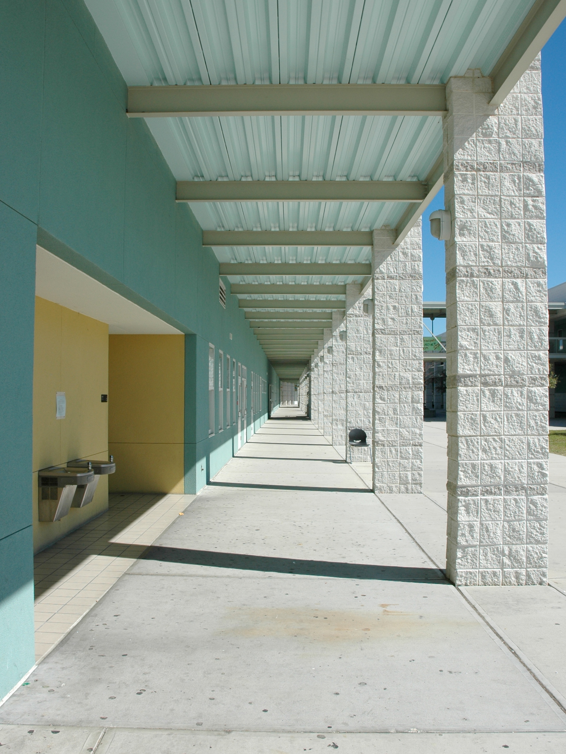 Hallway of Joe E. Newsome High School in 2007. Photo attribution must go to Steven H. Keys and